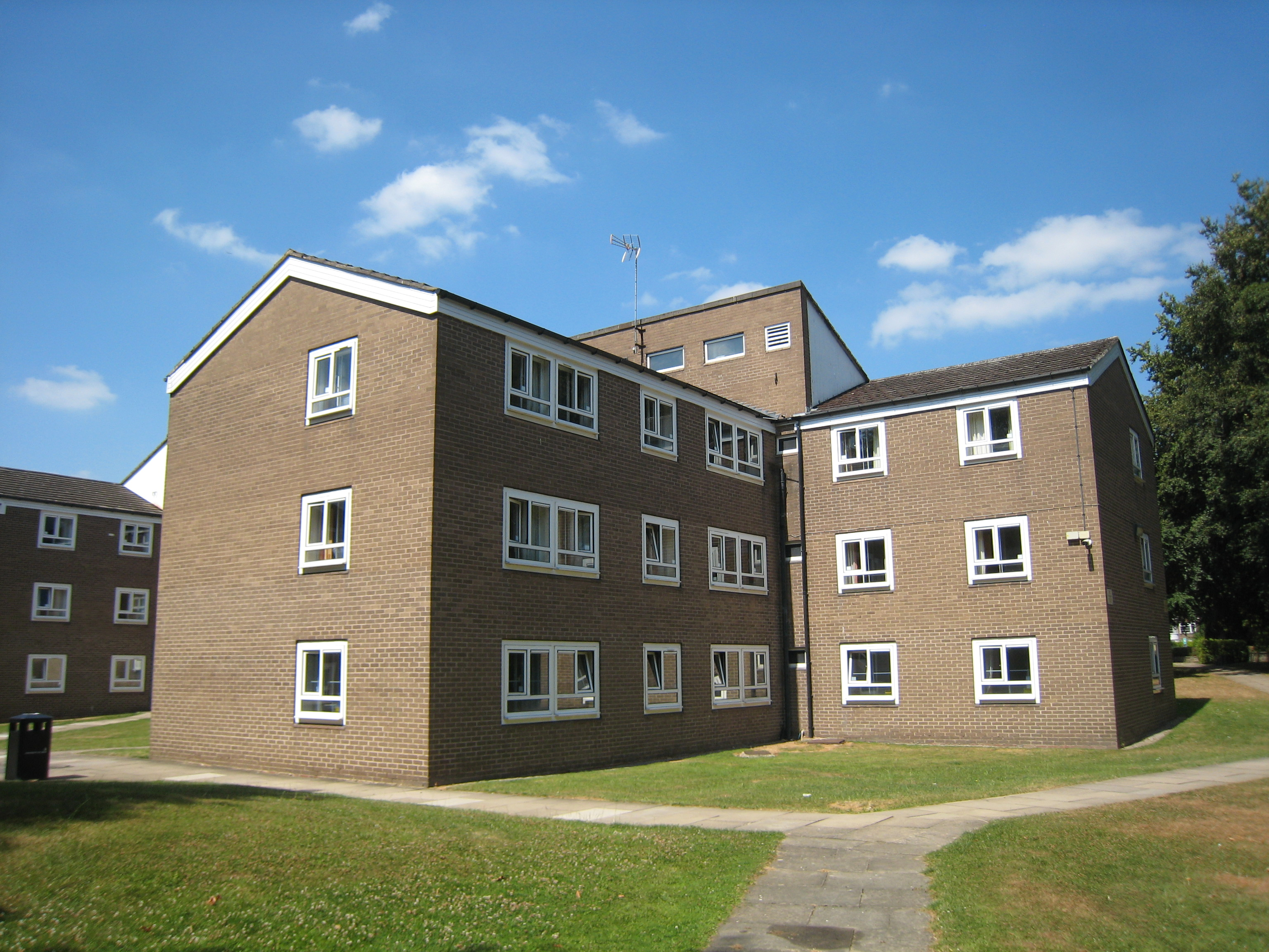 Lupton Residences (University of Leeds), Alma Road, Headingley, Leeds. Typical blocks of flats.